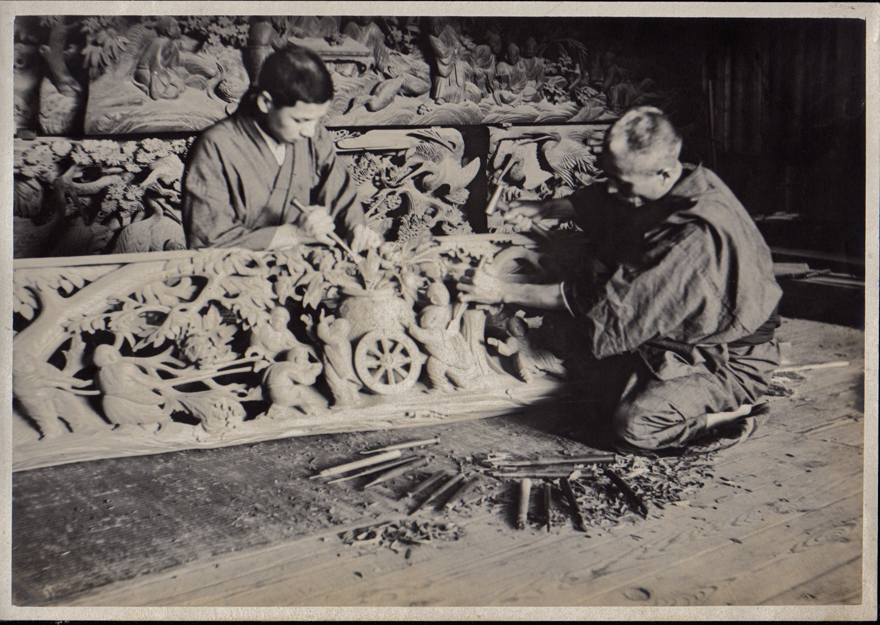 The sculptors in this studio appear to have specialized in carving friezes, judging from the piece they were working on and the finished pieces in the background. It would be interesting to know whether any of the carvings seen here are still extant. This photo is from an album Elstner Hilton compiled in Japan between 1914 and 1918. Elstner was my spouse's uncle. While Uncle Elstner sometimes annotated photos that required an explanation, he never dated the pictures. So all we know is they were taken between January, 1914 and December, 1918.